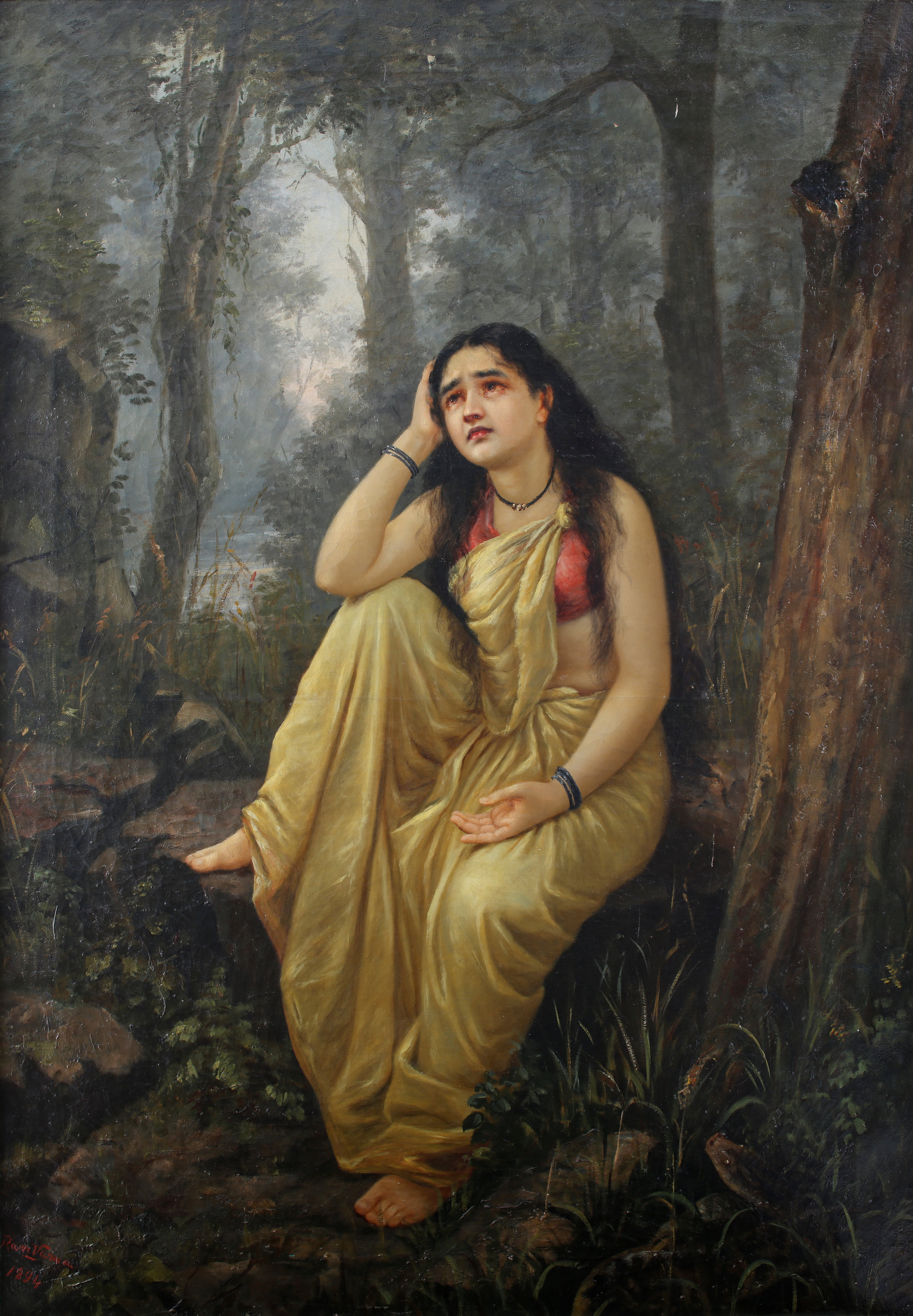 Damayanthi abandoned by Nalan, sitting alone in forest.